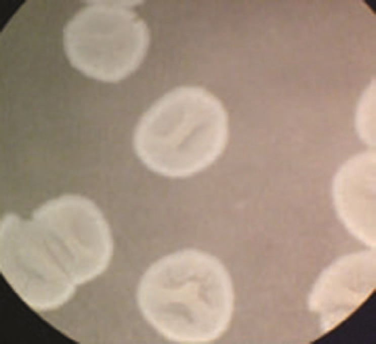 Morphology of Rothia dentocariosa colonies after 24 hours of incubation in sheep blood agar.